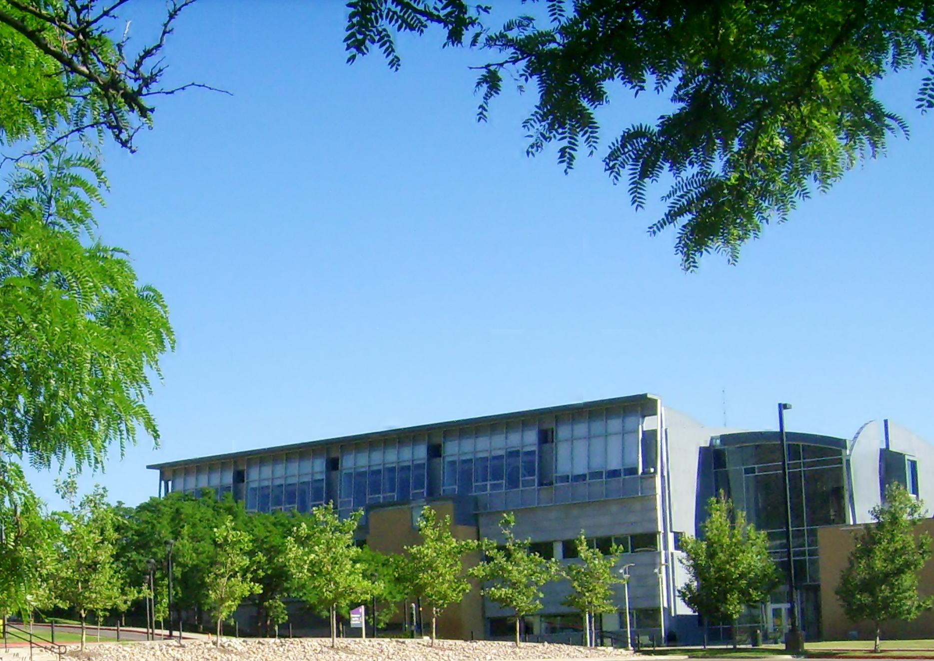 Weber State University campus